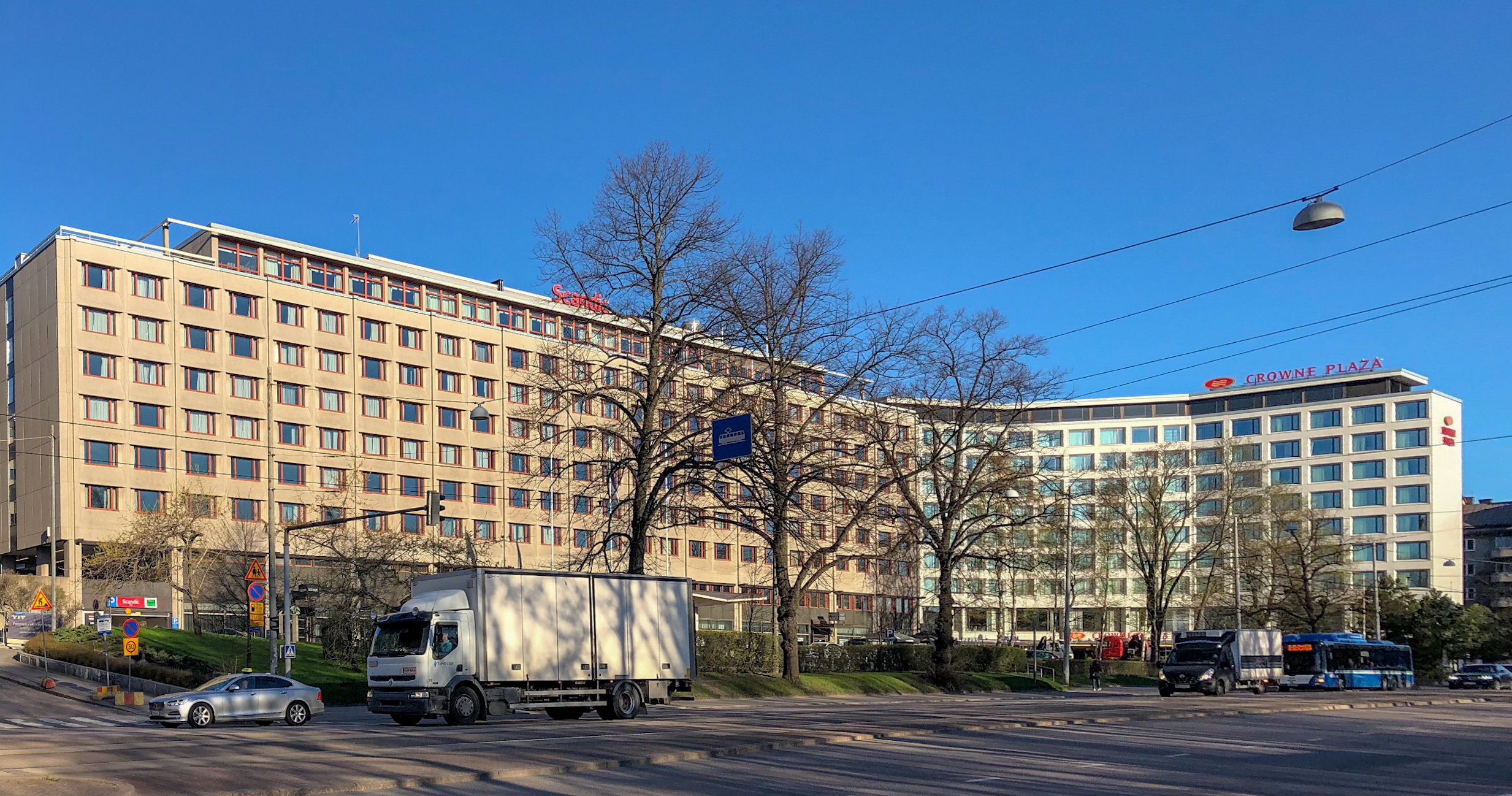 Scandic Park & Crown Plaza, Mannerheimintie Helsinki